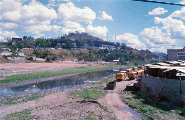 Choluteca River, flowing through the capital city of Honduras, dividing it into Tegucigalpa (left) and Comayagüela (right). On the background the National Stadium and the peace monument (erected after the end of the Soccer War with El Salvador. On the right a bus parking lot close to Comayagüela market.